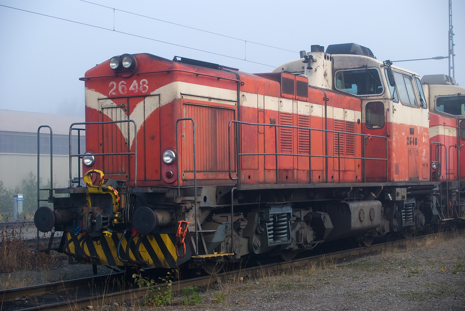 VR Class Dv12 diesel locomotive no. 2648 in Pieksämäki, Finland